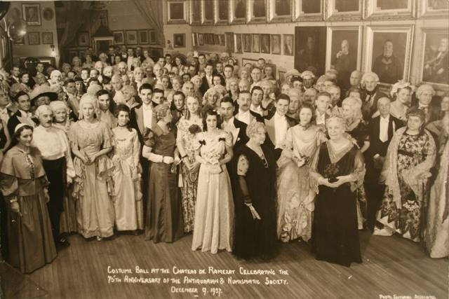 Costume Ball at the Chateau de Ramezay Celebrating the 75th Anniversary of the Antiquarian & Numismatic Society. December 9, 1937.